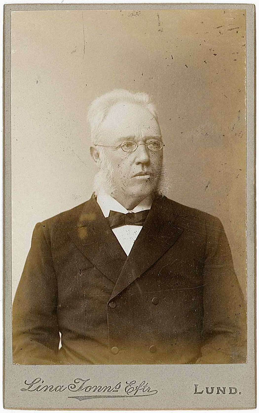 Fredrik Areschoug (1830-1908), Swedish professor of botany at Lund University